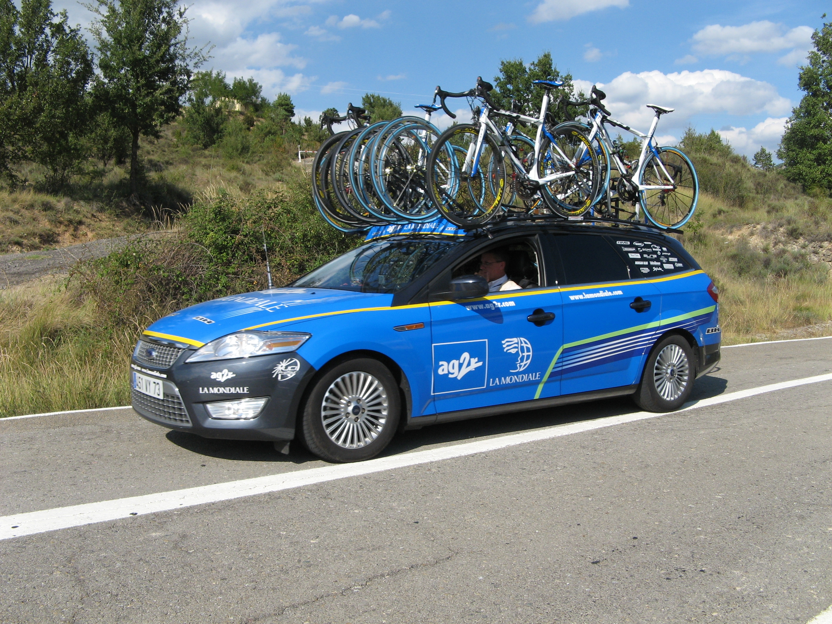 AG2R team car, 2008 Vuelta a España, 9th stage, Alto Gallego, Spain.